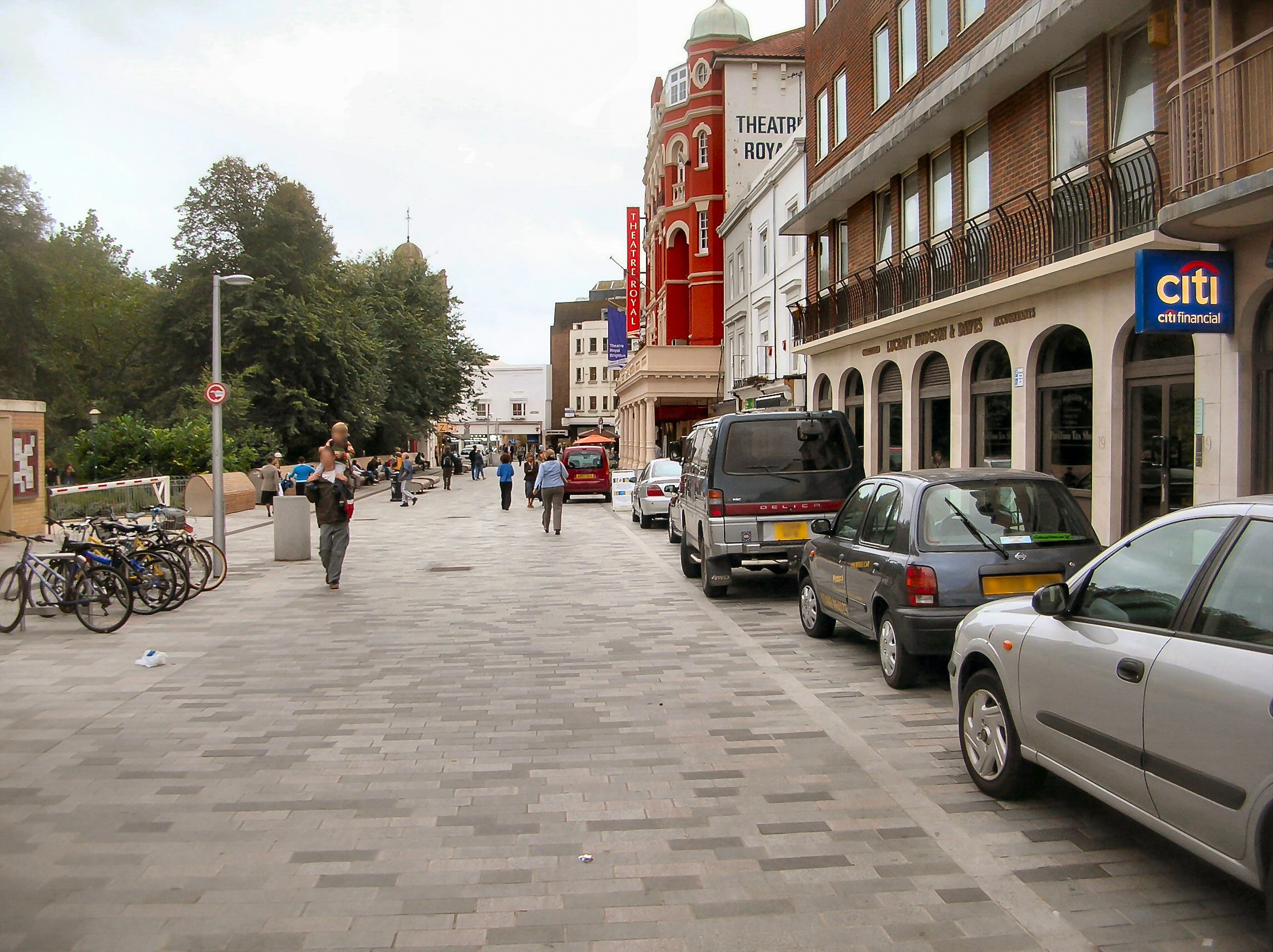 New Road, Brighton. Modelled using the Shared Space philosophy. Motor vehicles, cyclists, and pedestrians share the same space. Traditional road markings, signs and signals are absent.